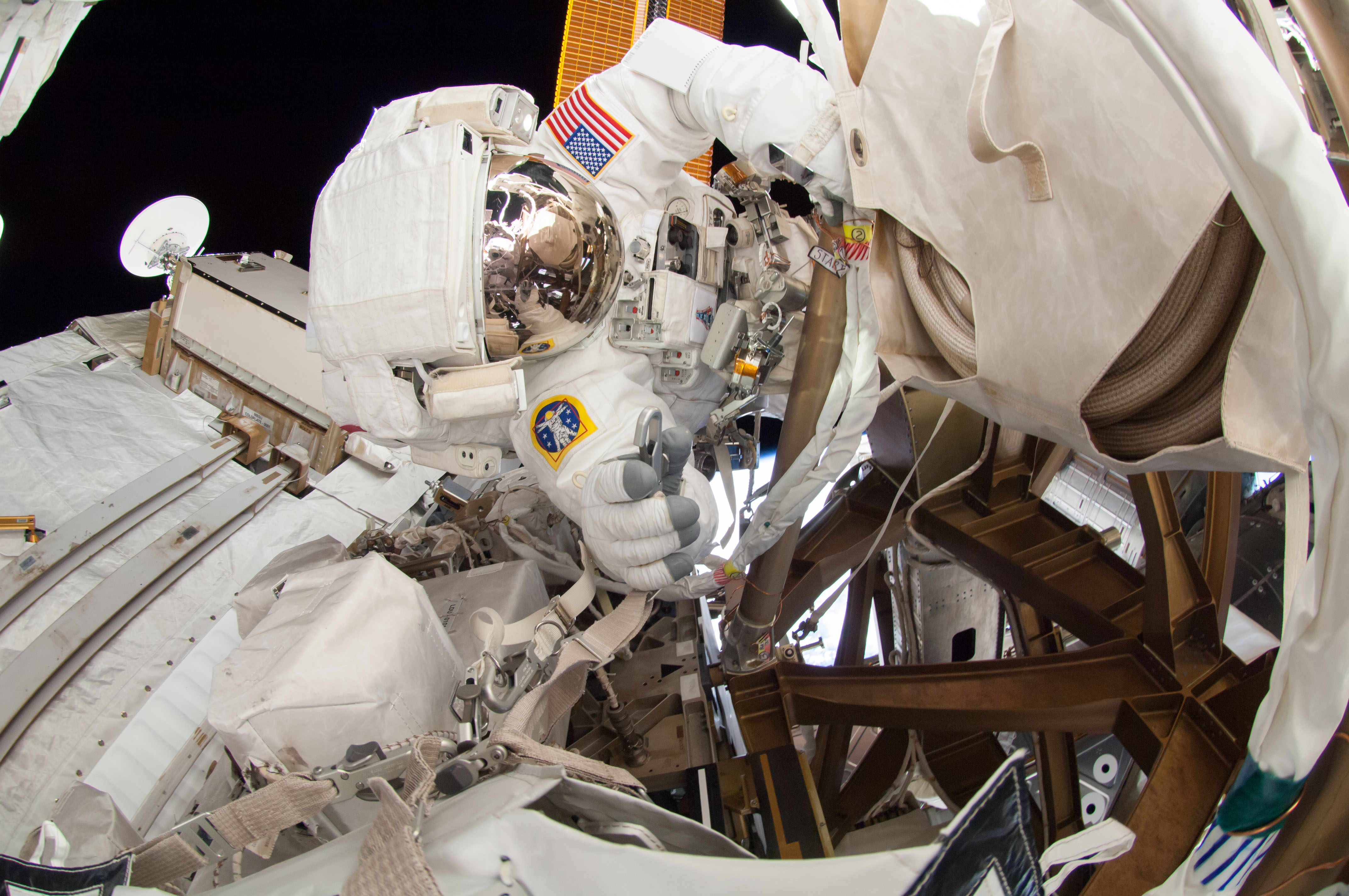 NASA Astronaut Reid Wiseman inspects the steel truss segment of the ISS integrated truss structure during his EVA.